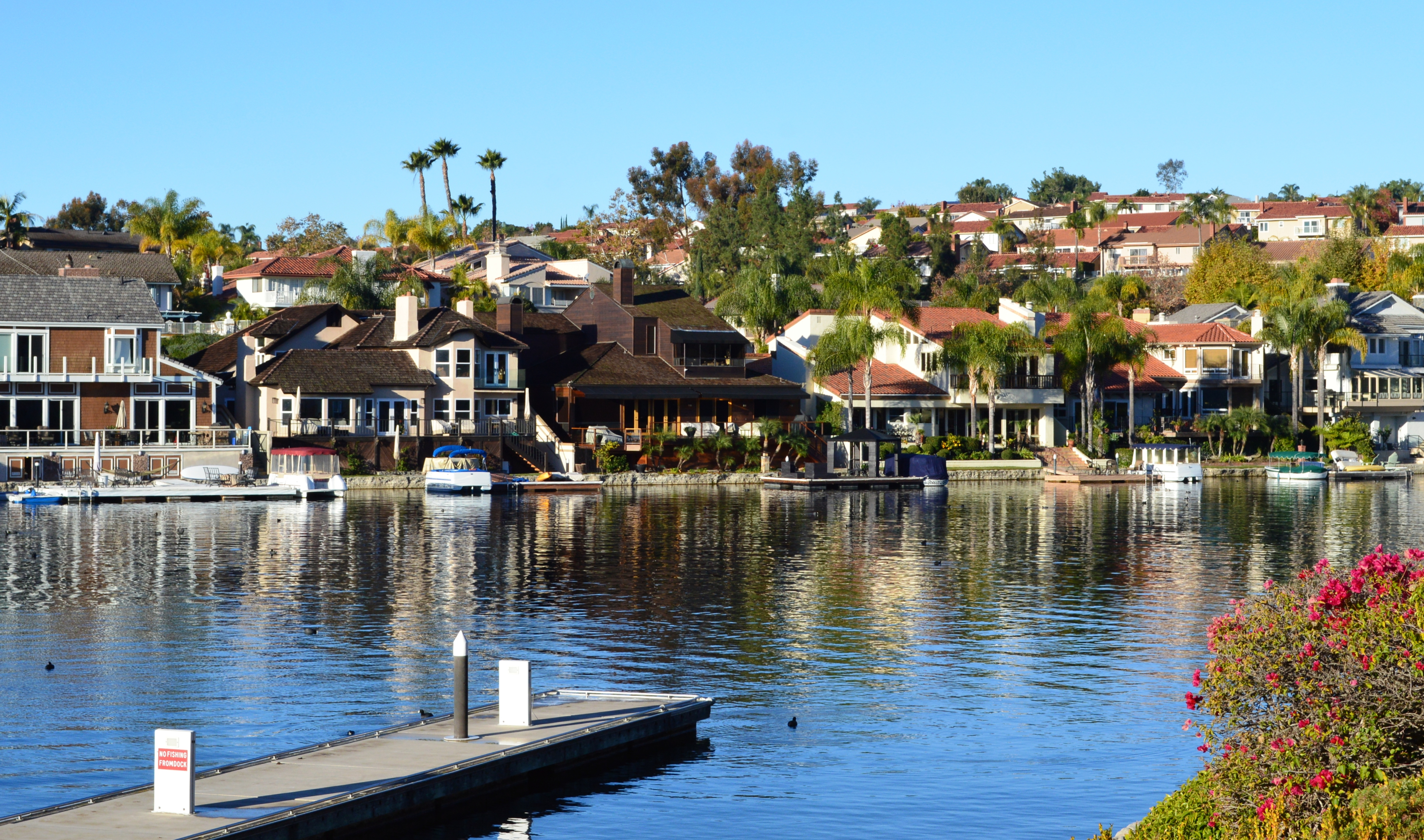 Lake Mission Viejo.